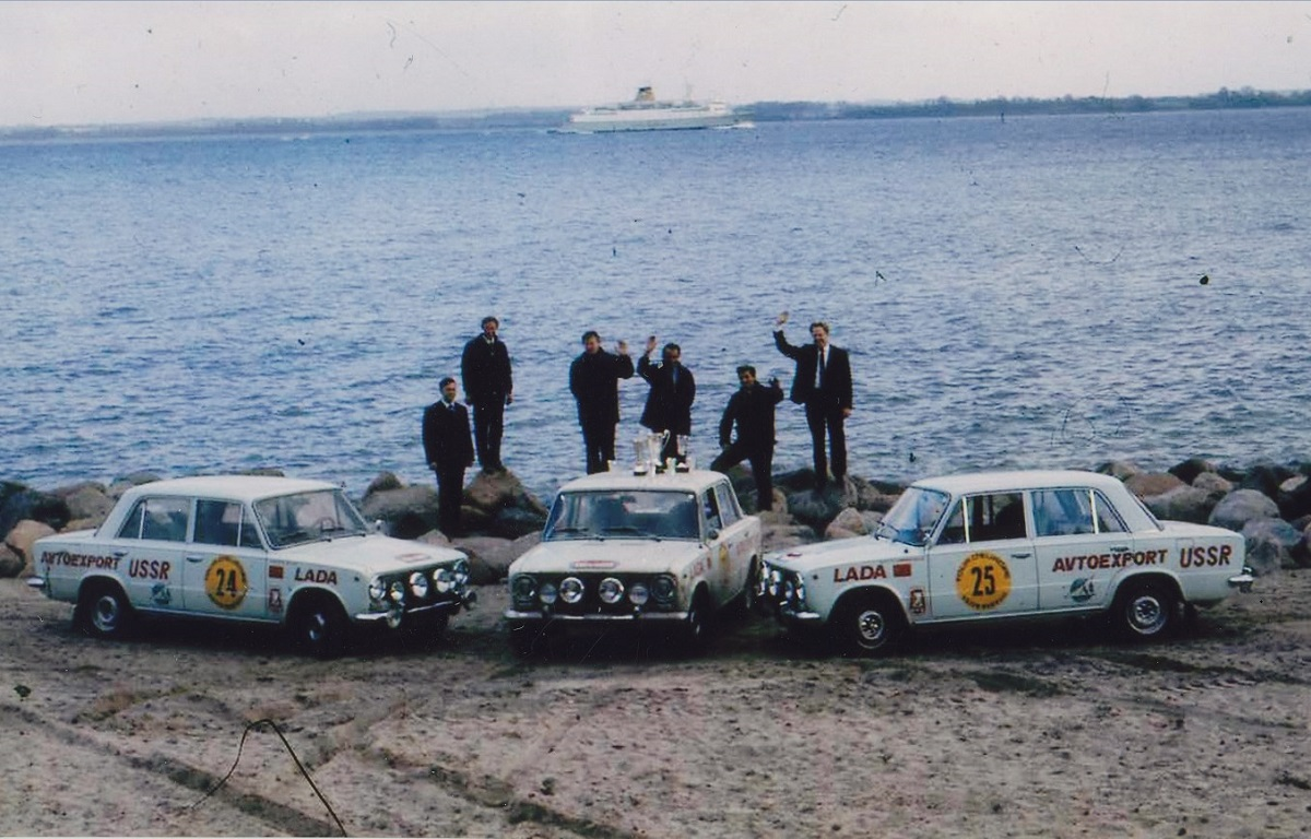 Lada VAZ 2101. ADAC Rallye Tour d'Europe 1971